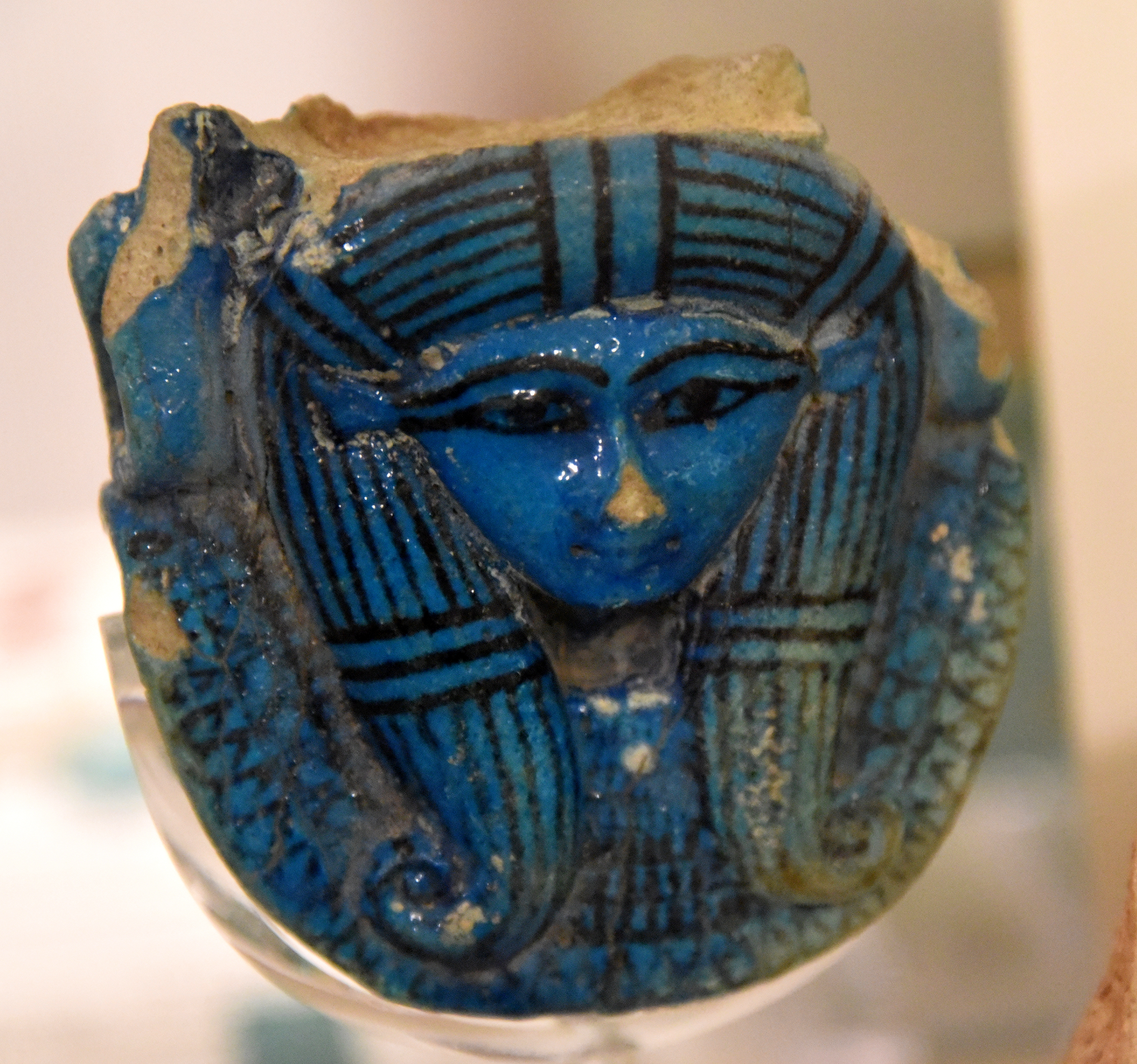 Hathor's head. Faience, from a sistrum's handle. 18th Dynasty. From Thebes, Egypt. The Petrie Museum of Egyptian Archaeology, London. With thanks to the Petrie Museum of Egyptian Archaeology, UCL.